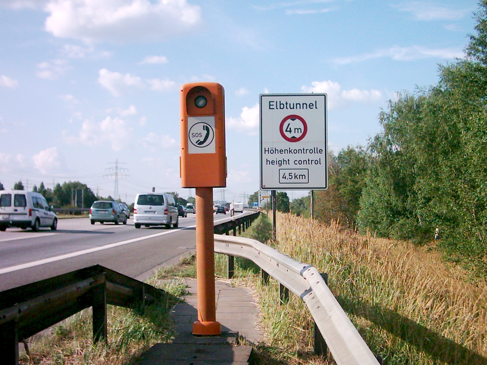 Road sign Height control and Callbox in front of New Elbe Tunnel in Hamburg, Germany.